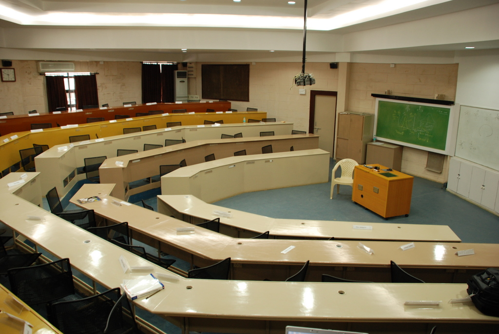 SPJIMR